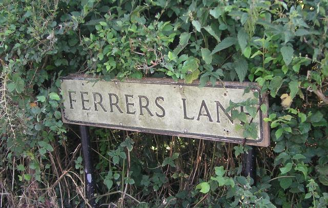 Photograph of 'Ferrers Lane' street sign, by Colin Riegels (1 July 2006)